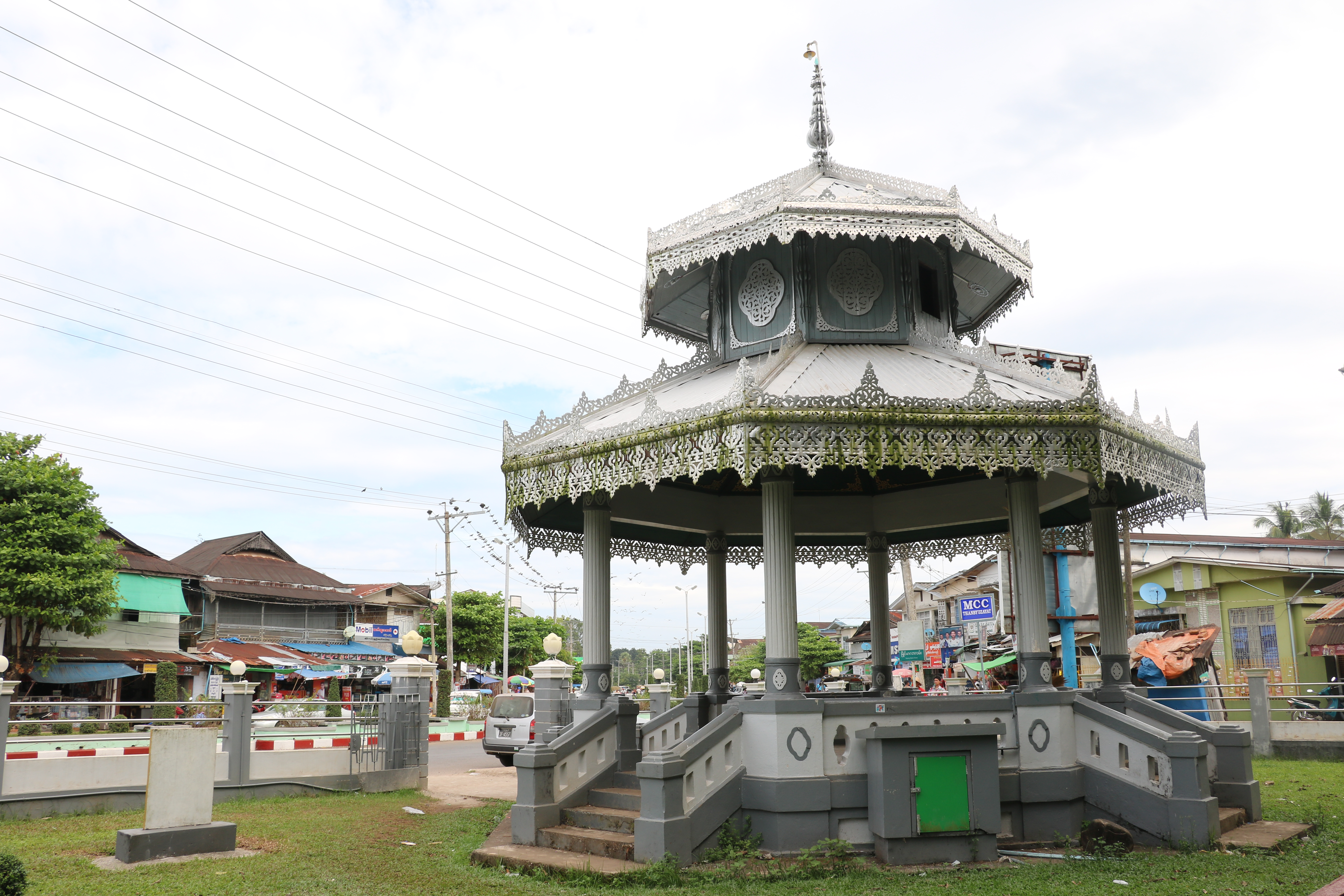 Thanphyu Zayat